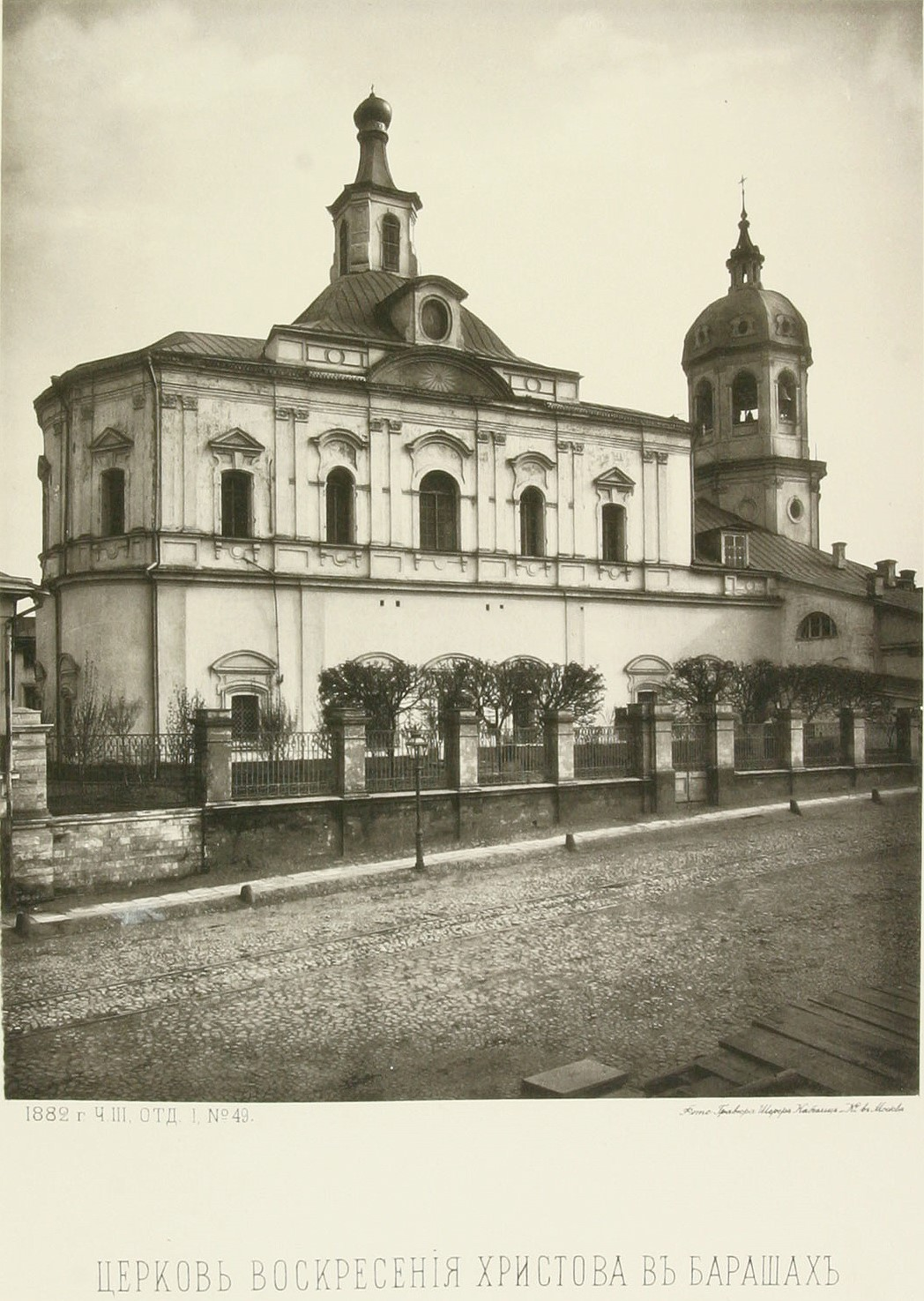 Pokrovka Street. Church of the Resurrection in the Barashi